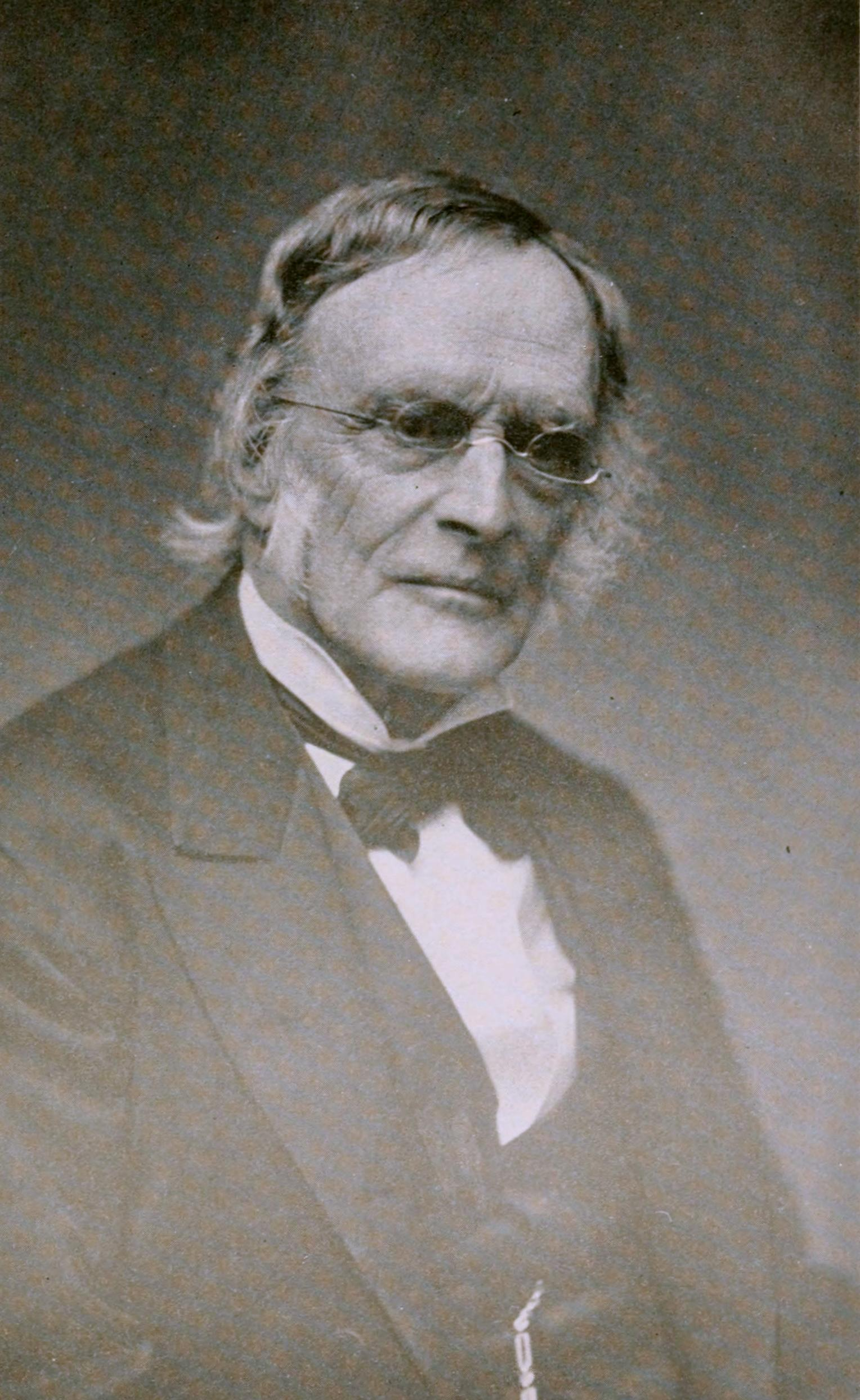 Portrait of Theodore Dwight Woolsey from Timothy Dwights Memories of Yale Life & Men (1903)